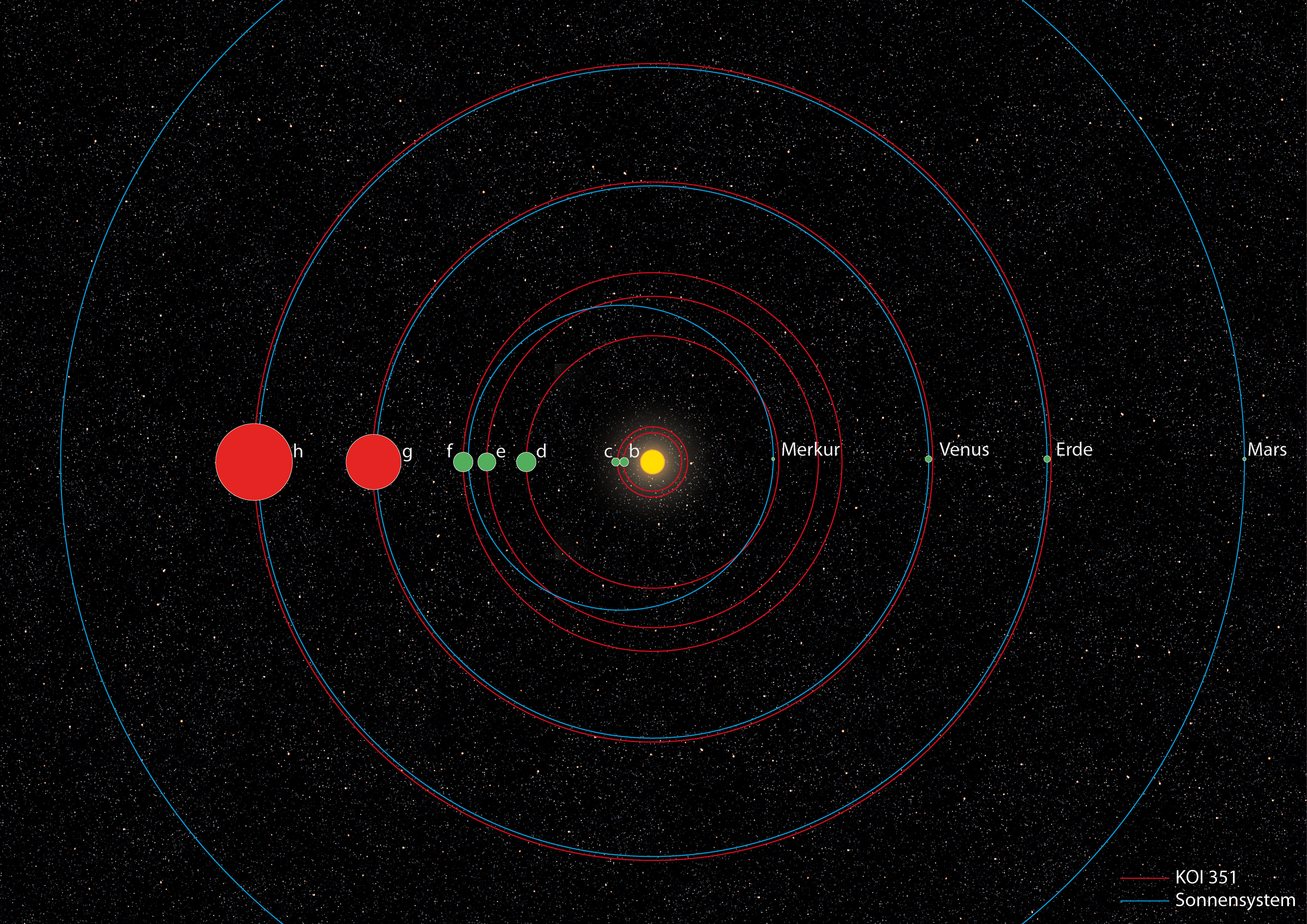 Comparsion beteen our solar system and the KOI-351 system.